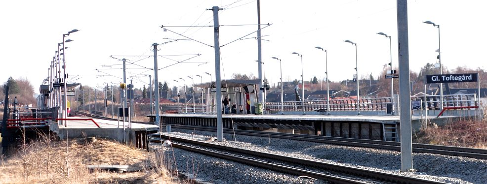 Egedal Station (prev. Gl. Toftegård Station) in Gl. Ølstykke, seen from the north east